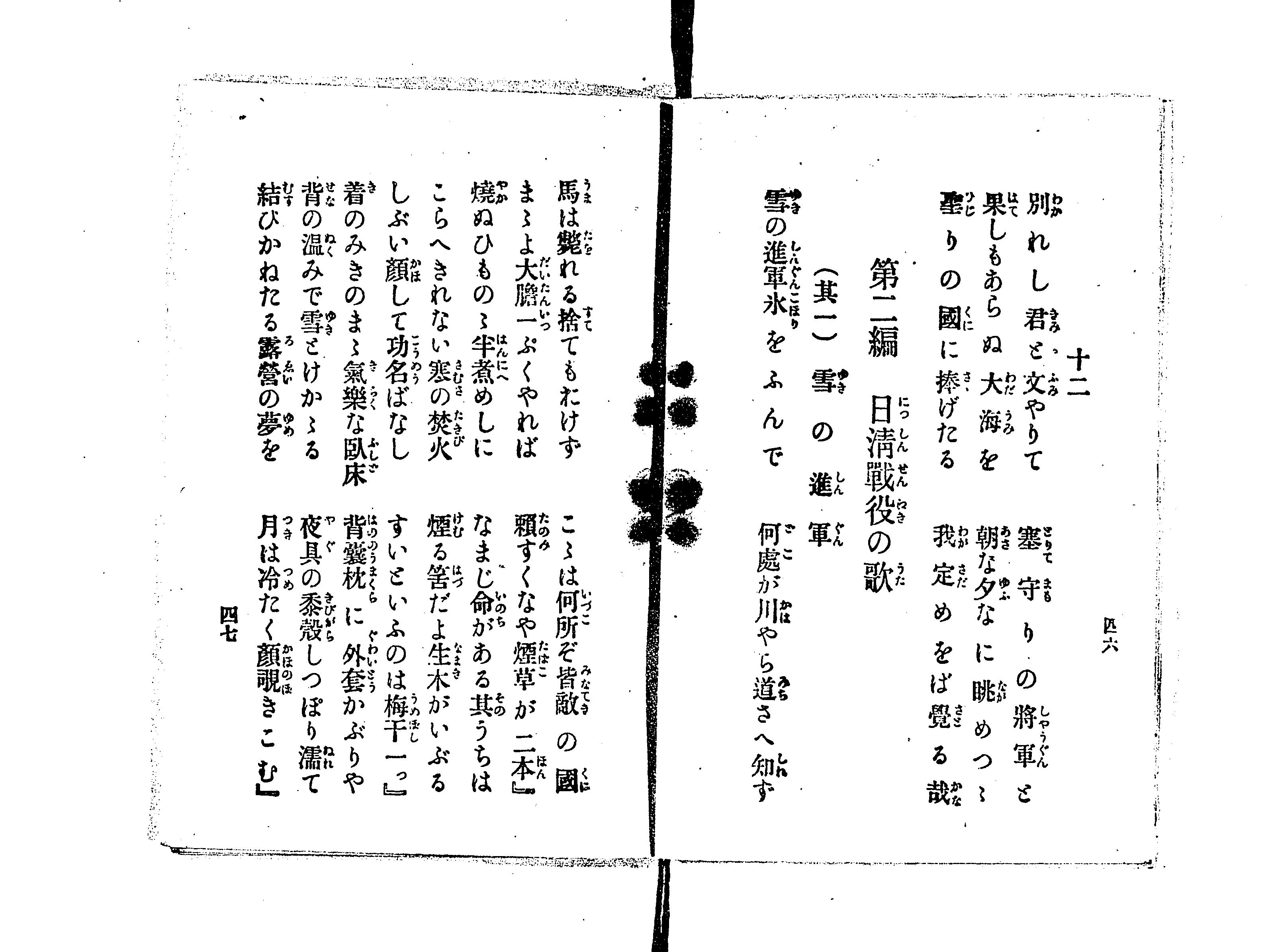 Yokinoshigun Published on「軍歌傑作集」(Collections of Excellent Gunka) (1911).